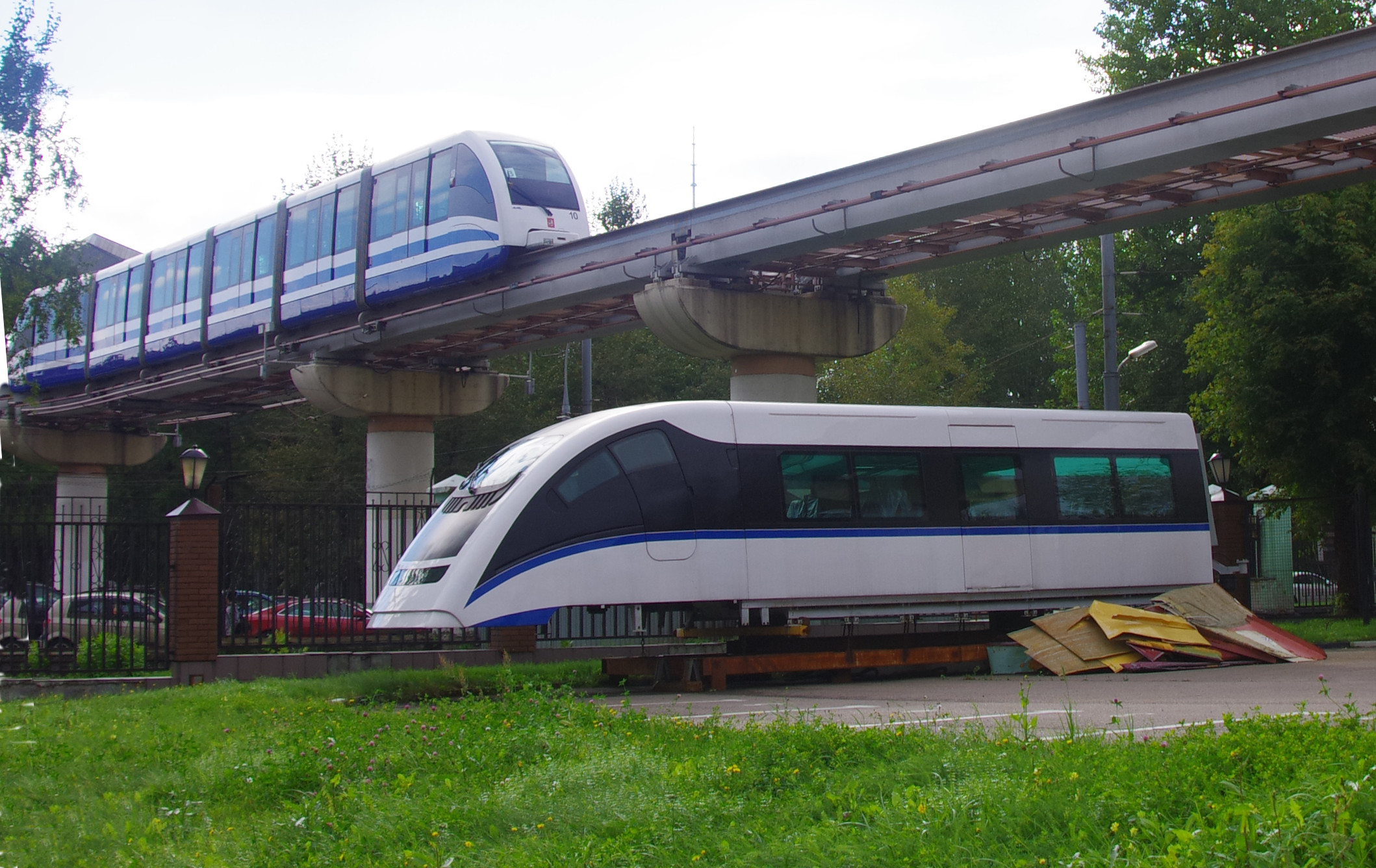 A single car in Moscow monorail depot. Shown on some exibition, but never used on Moscow monorail, due to another gabarites.